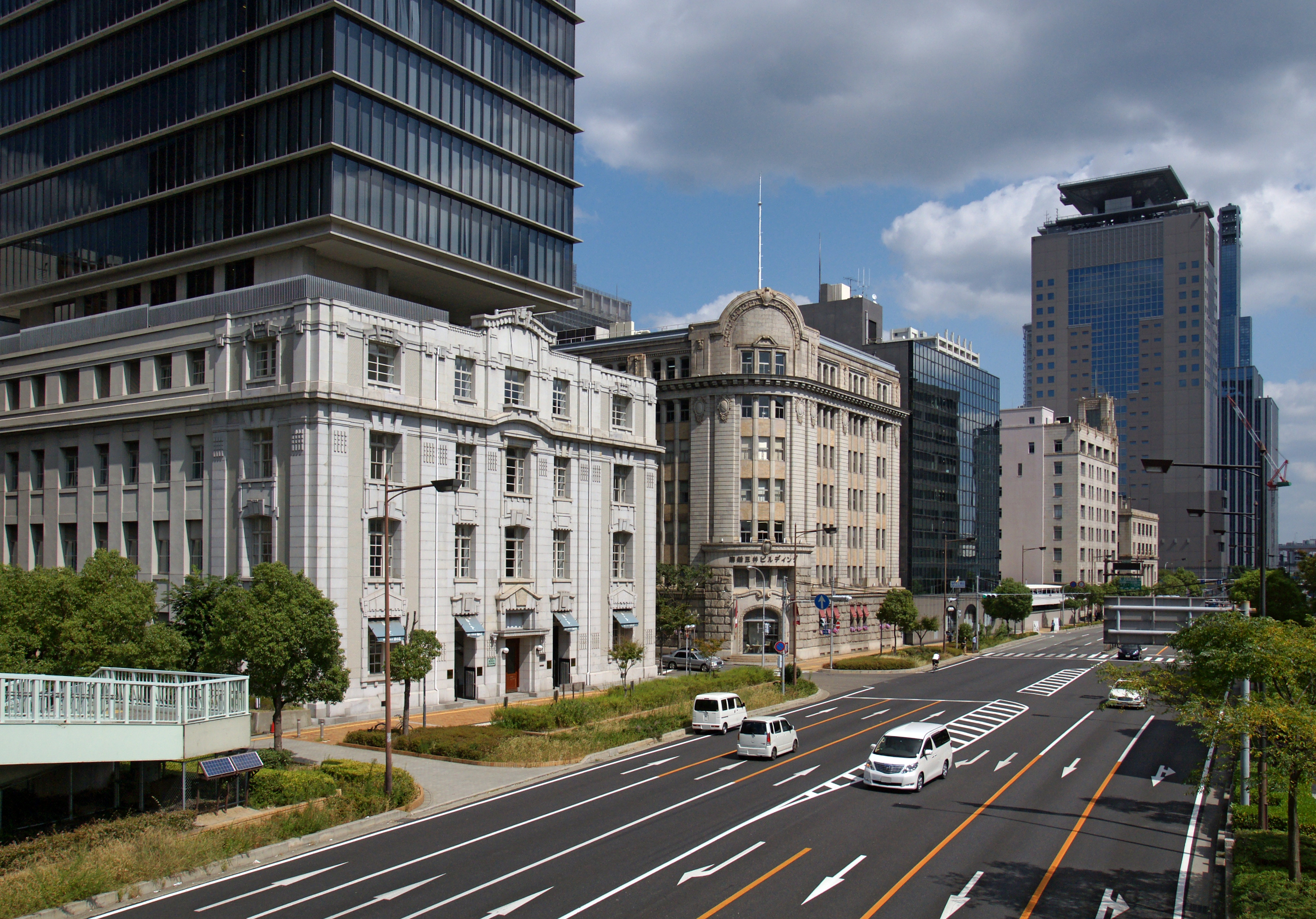 Kaigan Street (Route2) at Former Foreign Settlement of Kobe (Kyukyoryuchi) in Kobe, Hyogo prefecture, Japan